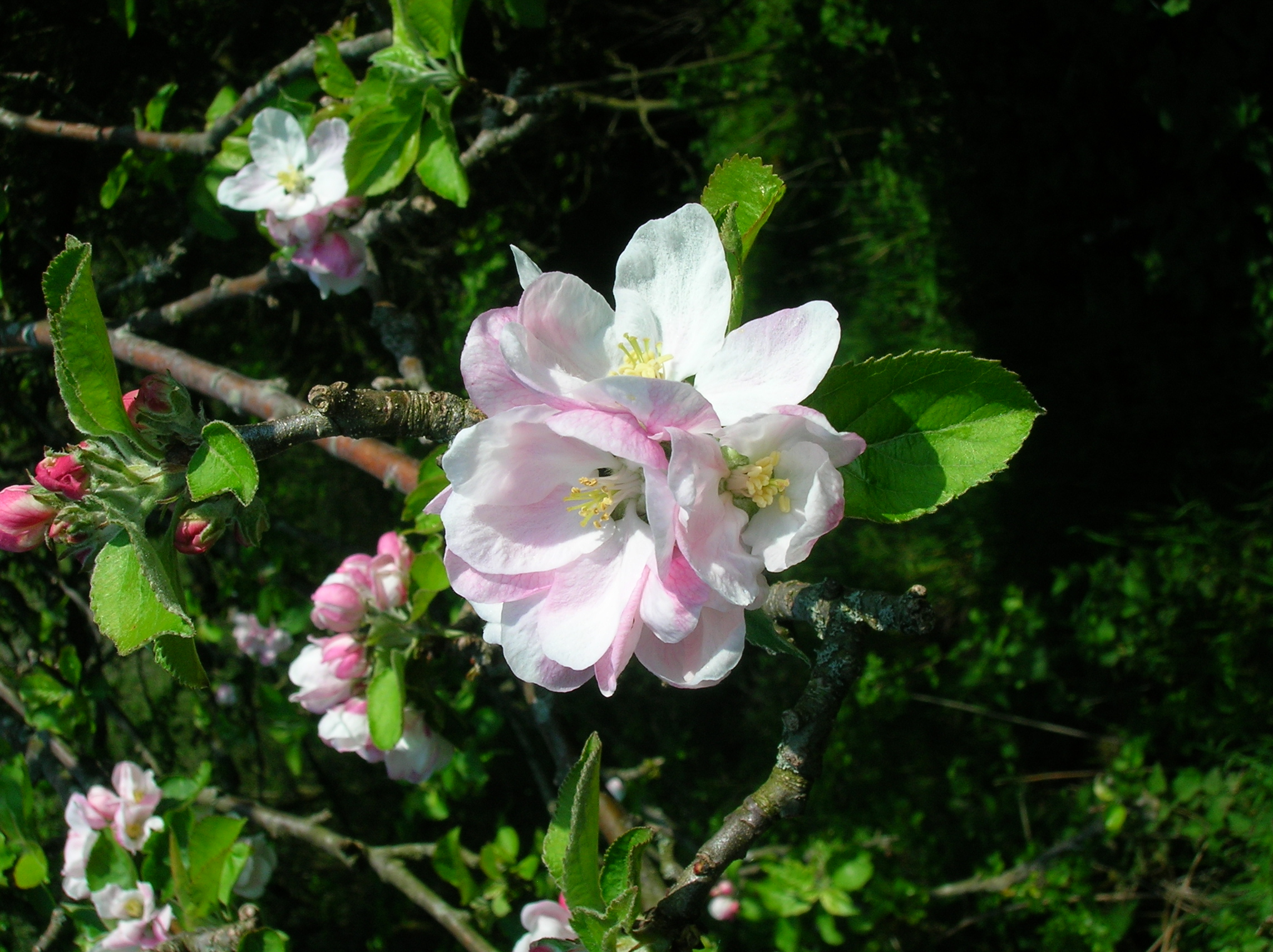 Apple tree in full blossom, North Ayrshire, Scotland.